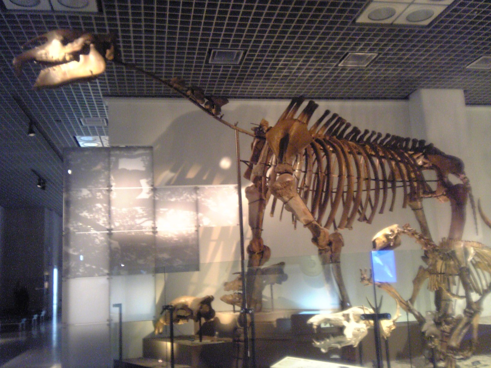 Skelton of Indricotherium transouralicum in National Science Museum, Tokyo.